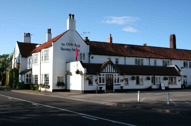 Ye Old Bell on the old great north road Looking North towards Doncaster having travelled from Retford this old coaching inn shines bright in the evening light.